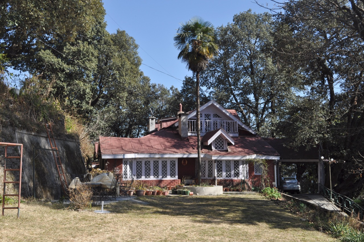 Khud Cottage, Shimla